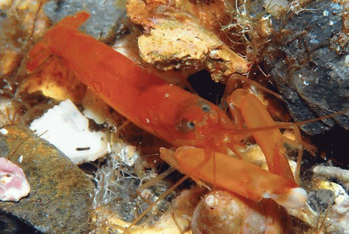 ZooKeys - Alpheus macrocheles Cut-out from original (Colour patterns of some species of the Alpheus macrocheles (Hailstone, 1835) complex - ZooKeys-183-001-g004.jpg) shown below